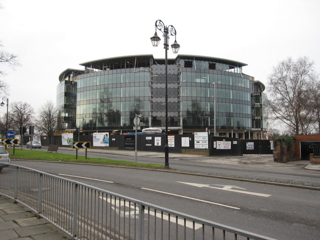 Chester HQ January 2009 This prime site, alongside Chester's inner ring road and overlooking the Roodee racecourse, was once the Militia Barracks. Later, in the 1960s, it became the location for Chester's much disliked Police HQ, and now it is being reborn again as a multi purpose hotel, apartment and office complex.